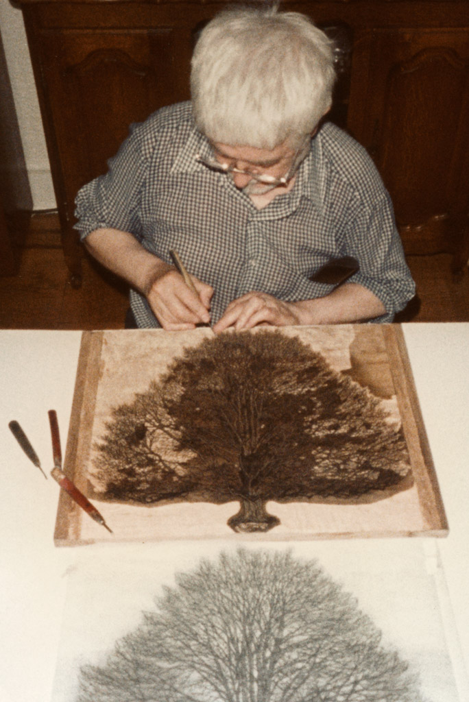 Jacques Hnizdovsky cutting the woodblock "Copper Beech" in 1985. Light brown areas on the woodblock show areas already carved, darker brown areas show areas still waiting to be carved. Black, inked areas will remain raised.